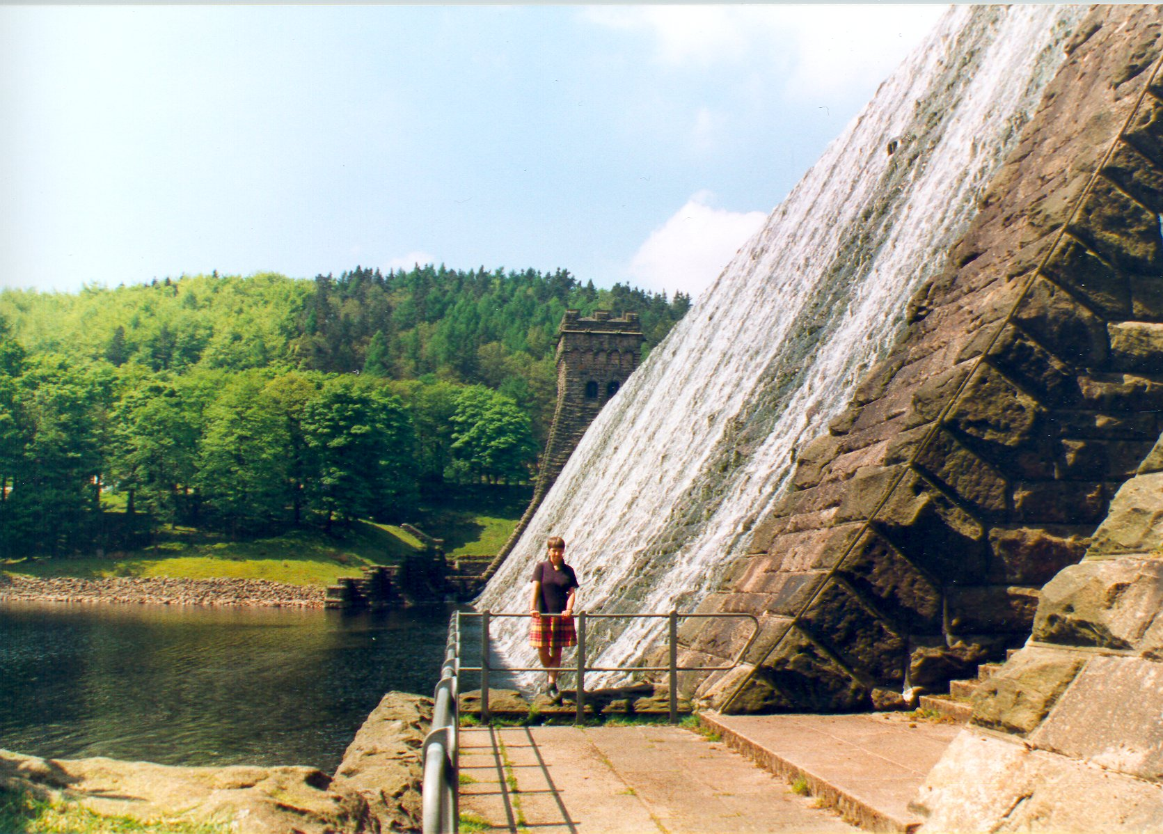 Taken by me, summer 2001